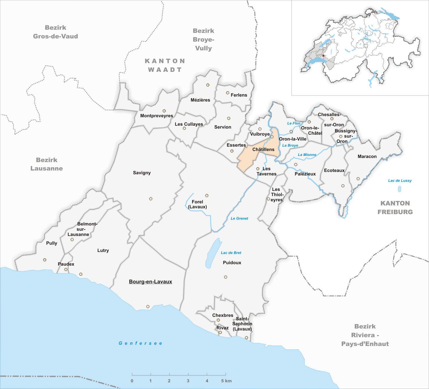 Municipality Châtillens